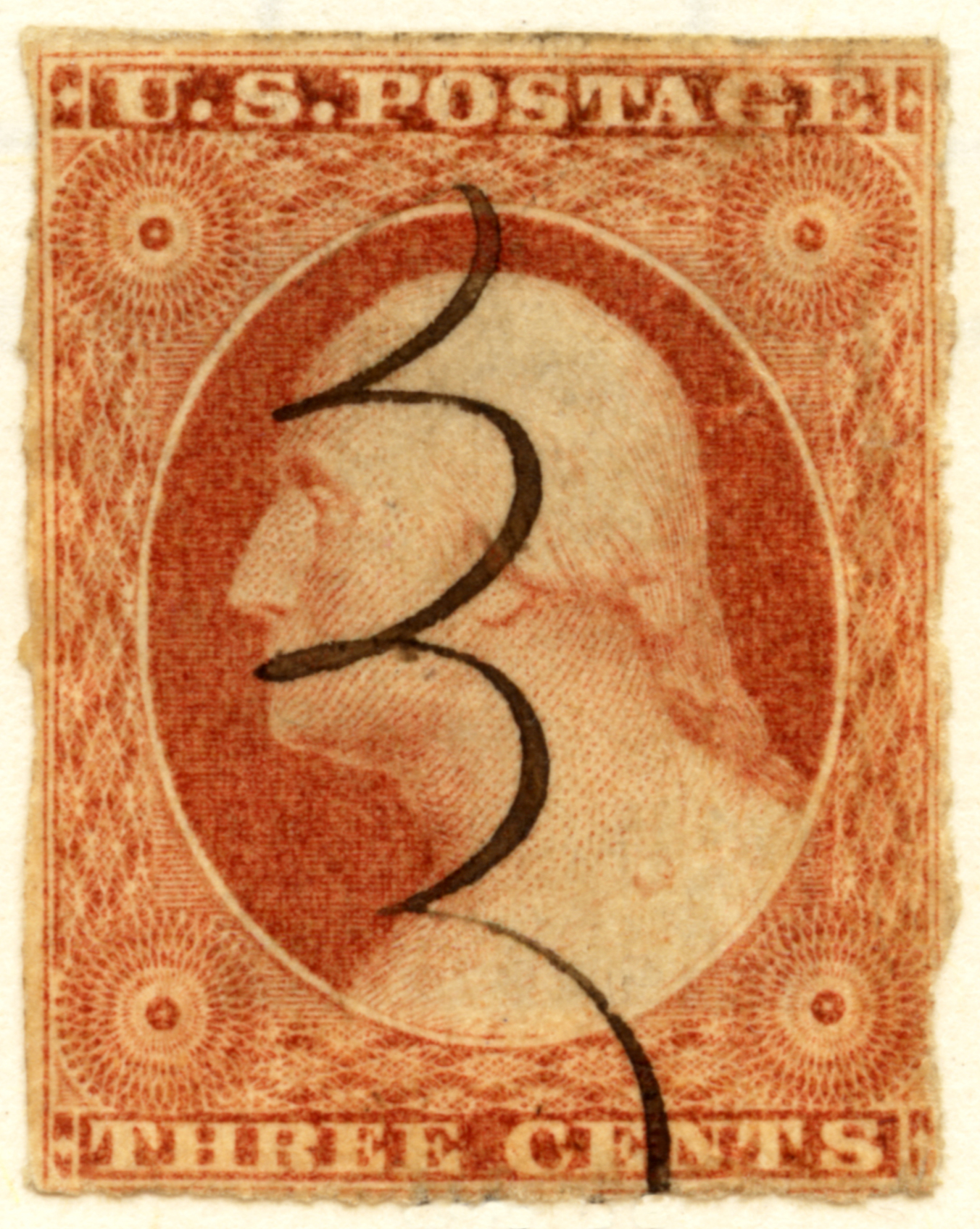 3-cent 1851 series United States postage stamp, imperforate, depicting the first US president, George Washington. A 3-cent stamp was sufficient cover postage up to 3,000 miles (if prepaid). If not prepaid, a 5-cent stamp was required. This stamp was printed by Toppan, Carpenter, Casilear & Co.